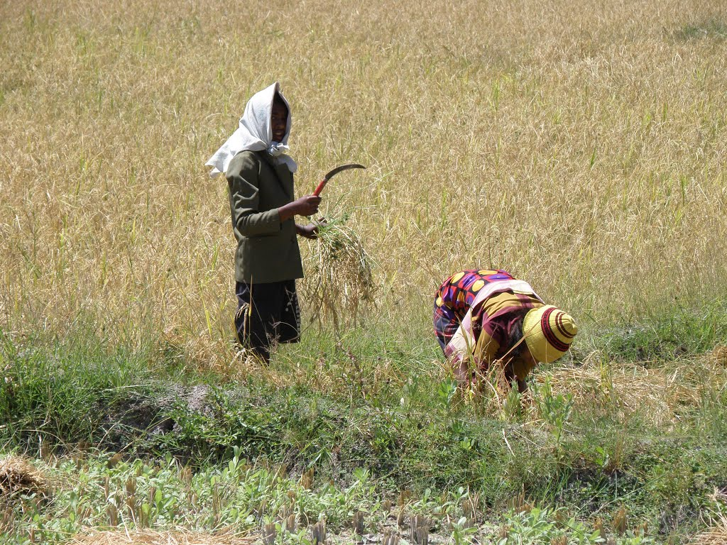 Rice harvest at Caravela, Baucau